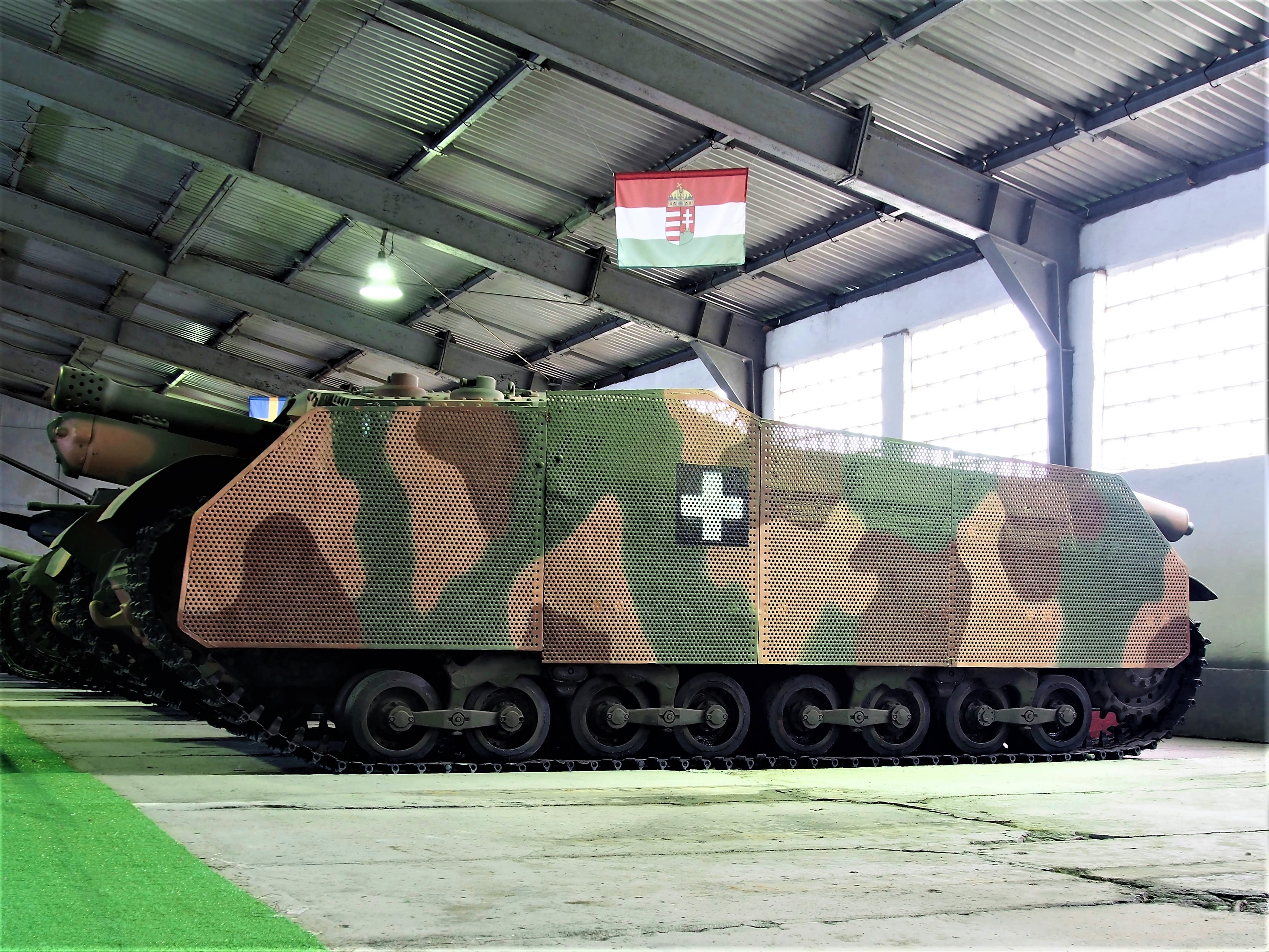 43M Zrínyi SPG in the Kubinka Museum.